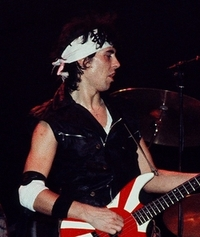 Pete Farndon in concert with the Pretenders